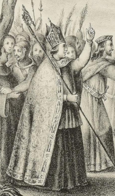 "Show of gratitude to D. Fuas Roupinho for the first and memorable naval victory achieved off the coast of the Algarve", in a 19th-century engraving.